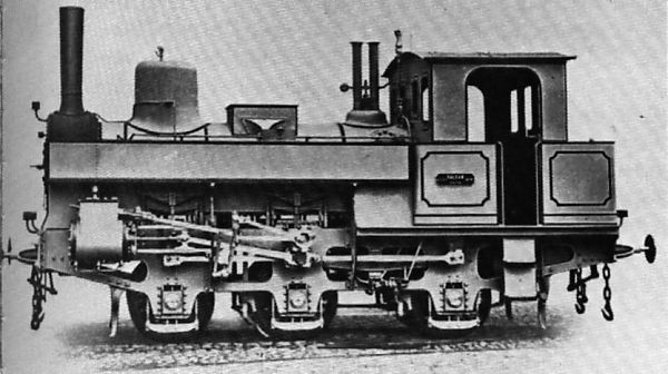 Steam locomotive Alsace-Lorraine T 2.1 with friction gearing.